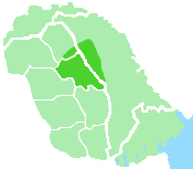 Iasians in Moldavia around Aski (tinutul Iasilor) XIVth cen. since Alexandru I. Gonța, The Romanians and the Golden Horde, Demiurg publ., Iași, 2010, p. 102, C.C. Giurescu, Bouroughs, cities and towns of Moldavia, Bucharest 1967, p. 242-245, Gheorghe Ghibănescu, The origins of Jassy, in „Arhiva”, Iași, 1904, p. 42-46, A.P. Horvath, Pechenegs, Cumans, Iasians, Hereditas, Budapest, 1989, p. 64, and Serguei Bacalov, Notice on the Alans and Iasians in Medieval Moldavia [1] and Orbis Latinus - Jassium.